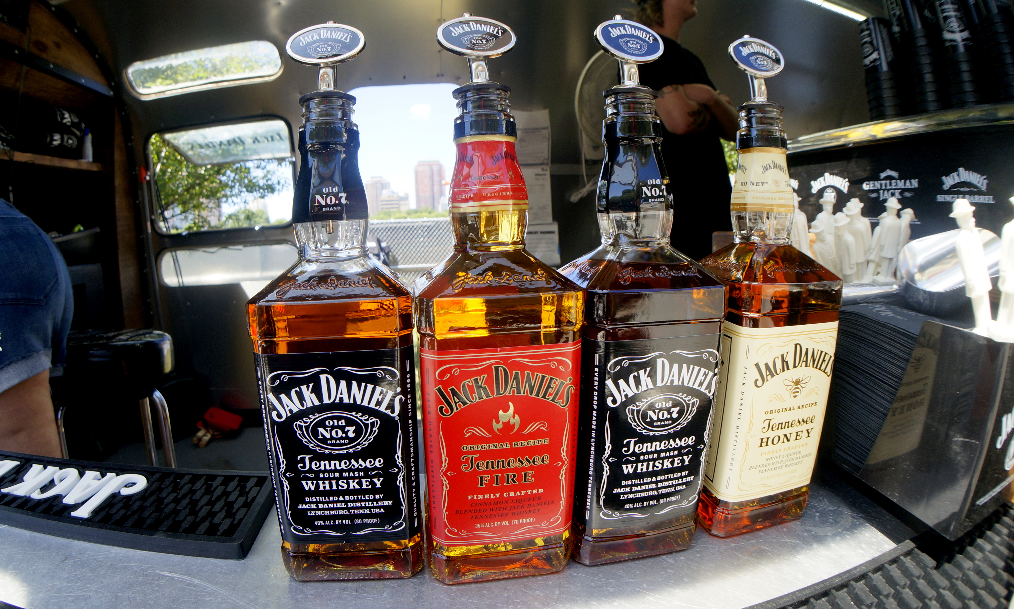 Jack Daniel's Tennessee whiskey with Tennessee Honey and Tennessee Fire at a Jack Daniel's themed bar. More freely usable Lollapalooza 2015 Pictures.